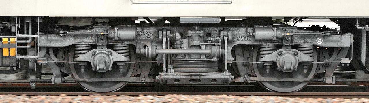 Sumitomo Metal Industries type FS356 ( Tobu type TRS-62M ) bogie truck of Tobu Railway 8000 series EMU ( Moha 8538 )